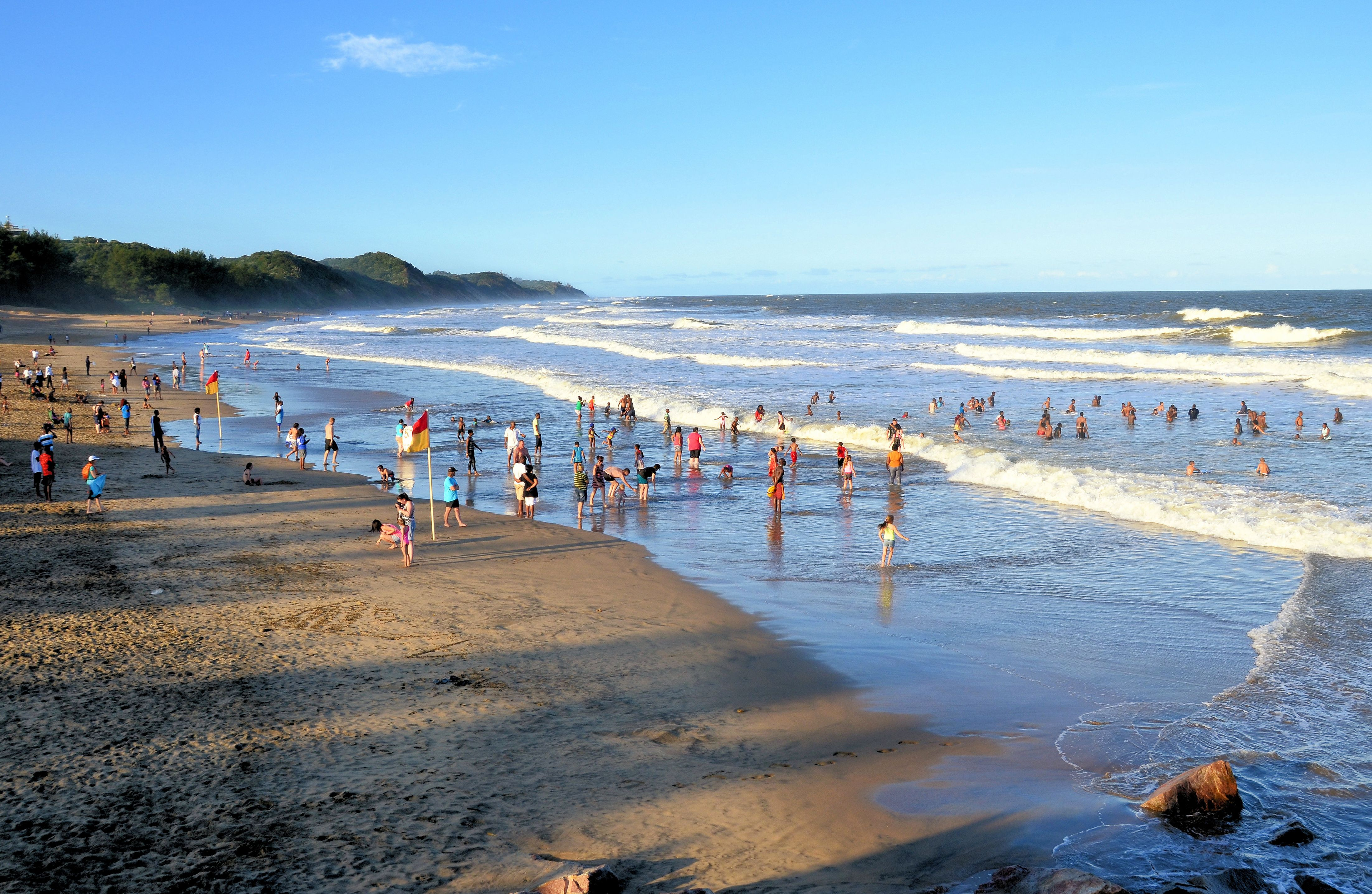 Alkantstrand (beach), Richards Bay, South Africa